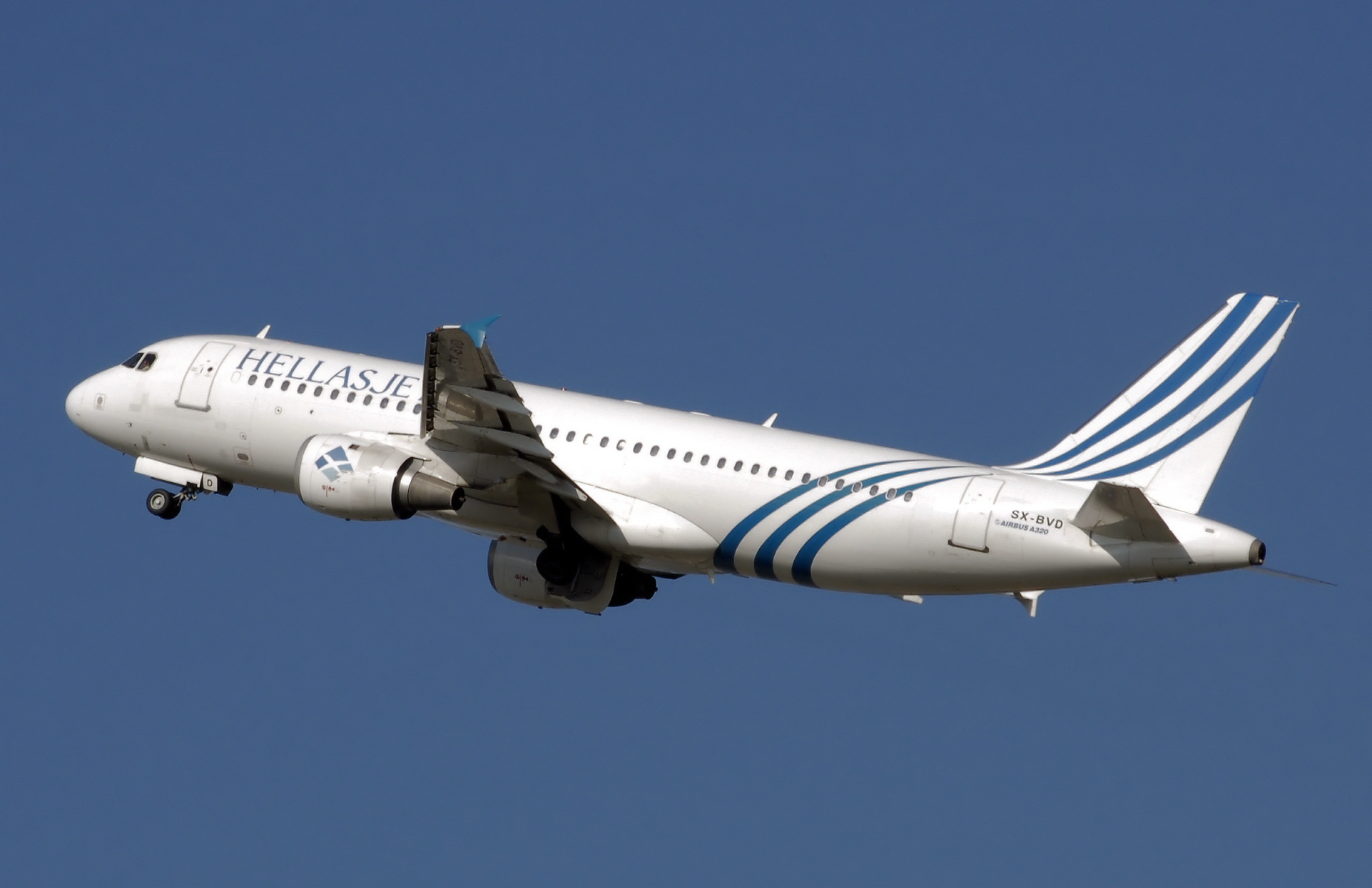 Hellas Jet Airbus A320-200 (SX-BVD) taking off from London Heathrow Airport, England. The undercarriages are retracting.